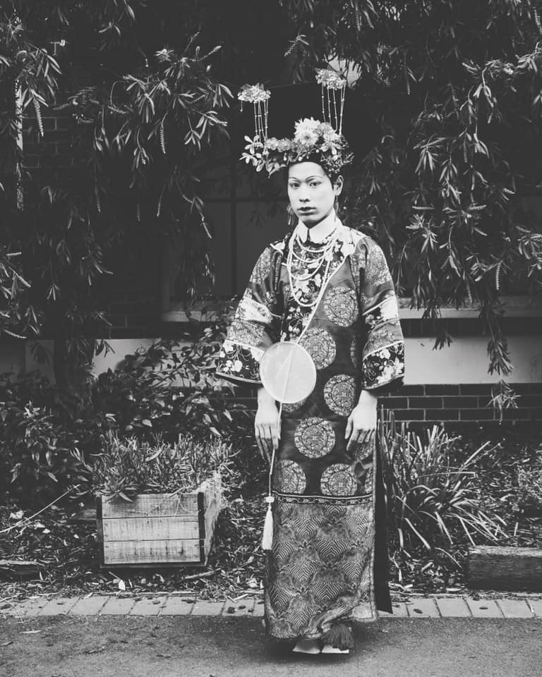 A Manchurian noble lady at her backyard in 1900s.